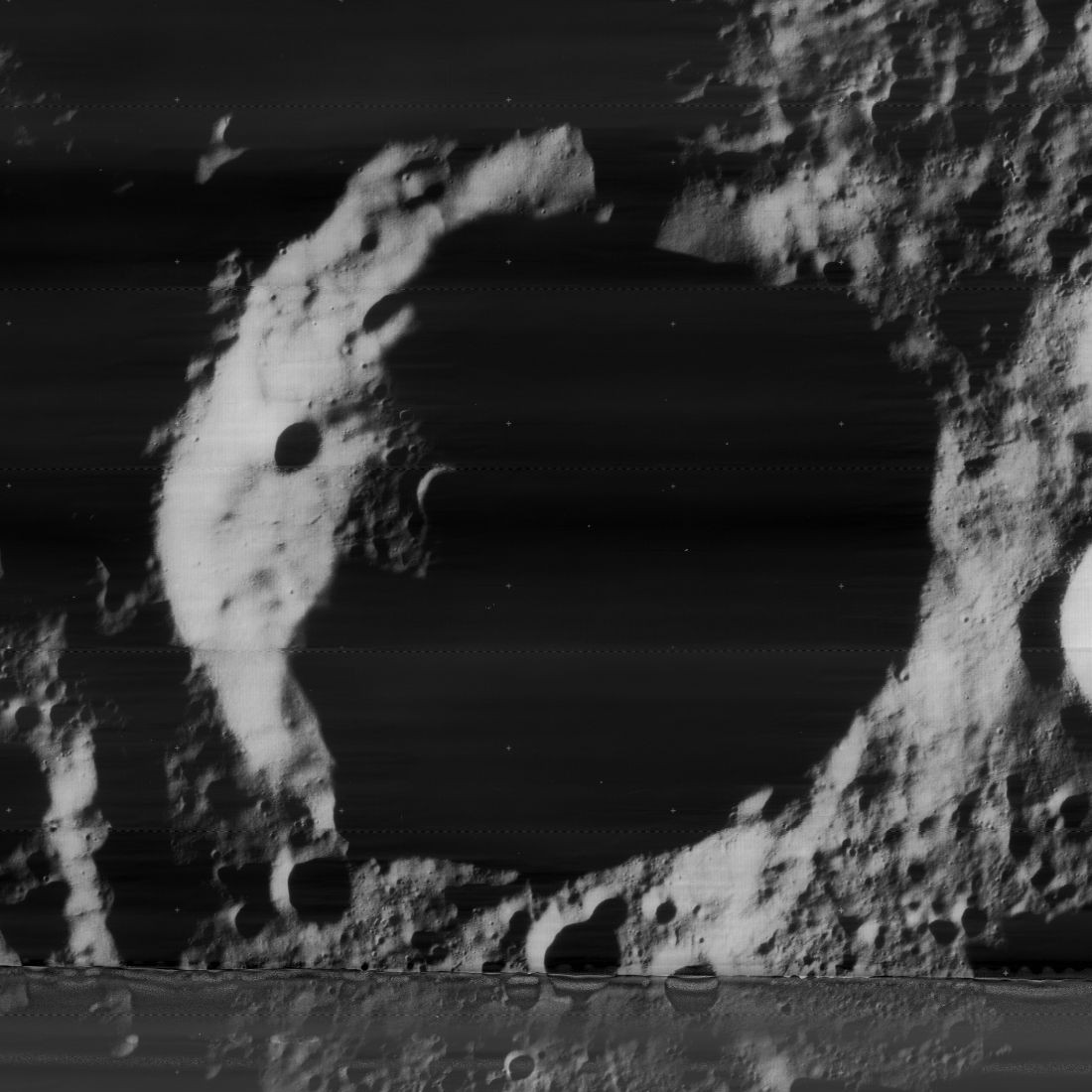 Sylvester, near the north pole of the moon. Band of subdued color at bottom is blemish on original.